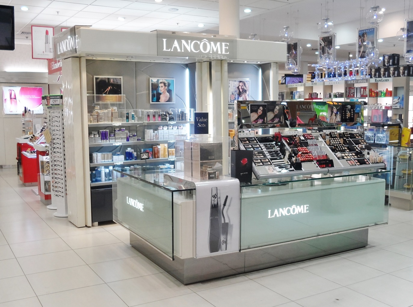 Lancôme cosmetics counter at New Zealand pharmacy Life Pharmacy at Westfield Queensgate in Lower Hutt, Wellington region in 2015.